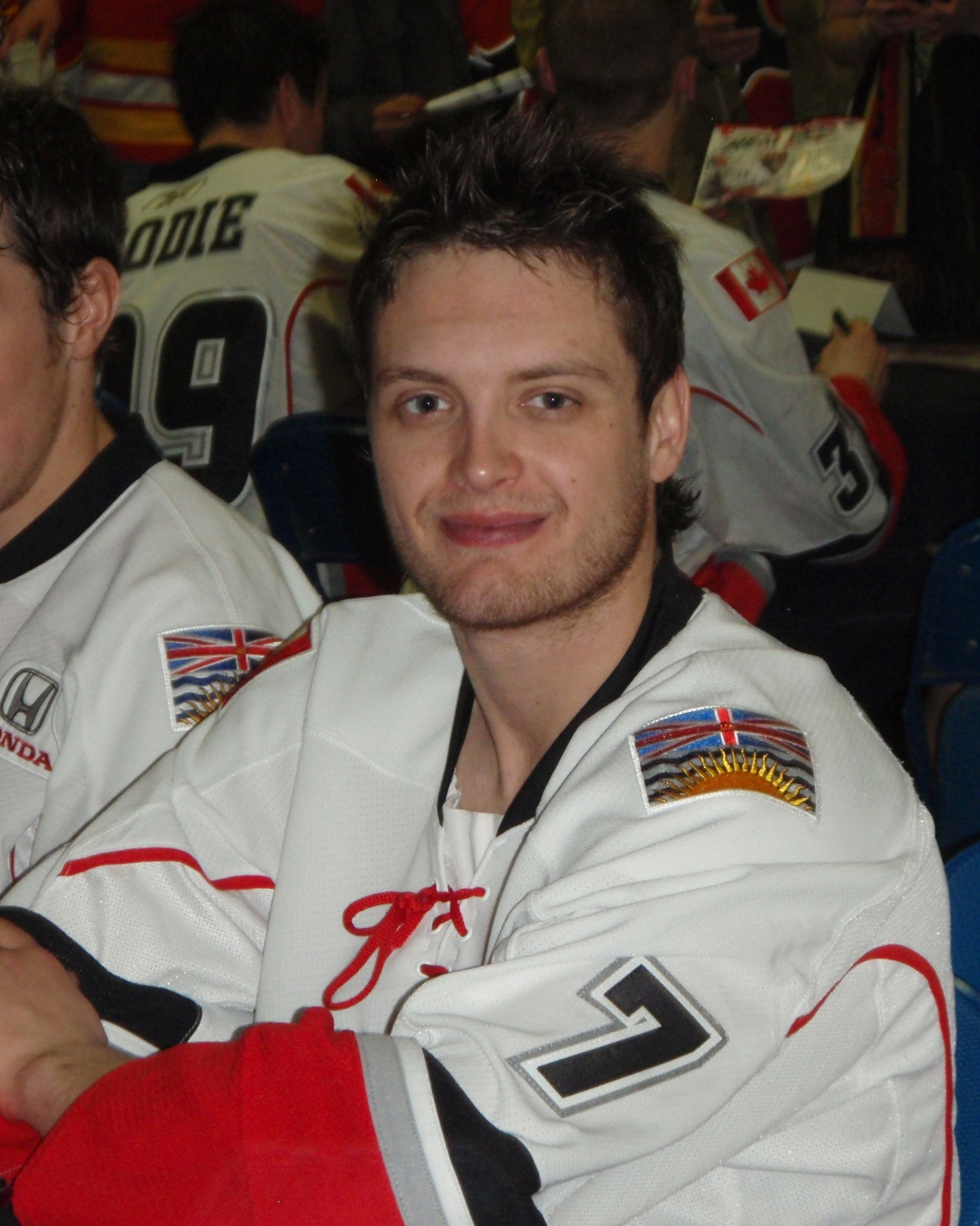 Members of the American Hockey League's Abbotsford Heat signs autographs for fans. Photo taken in Calgary, Alberta on February 18, 2011.